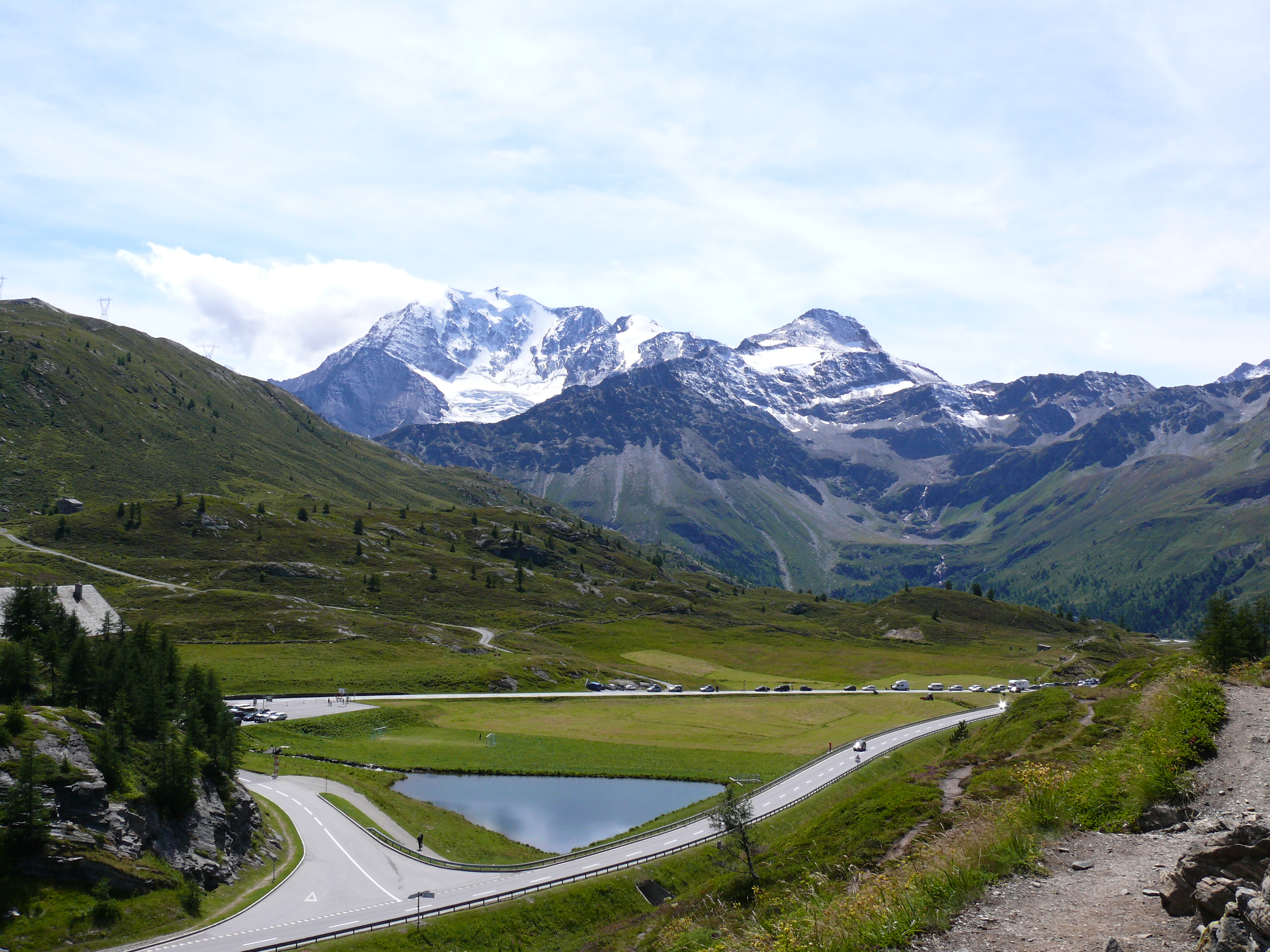 Simplon Pass